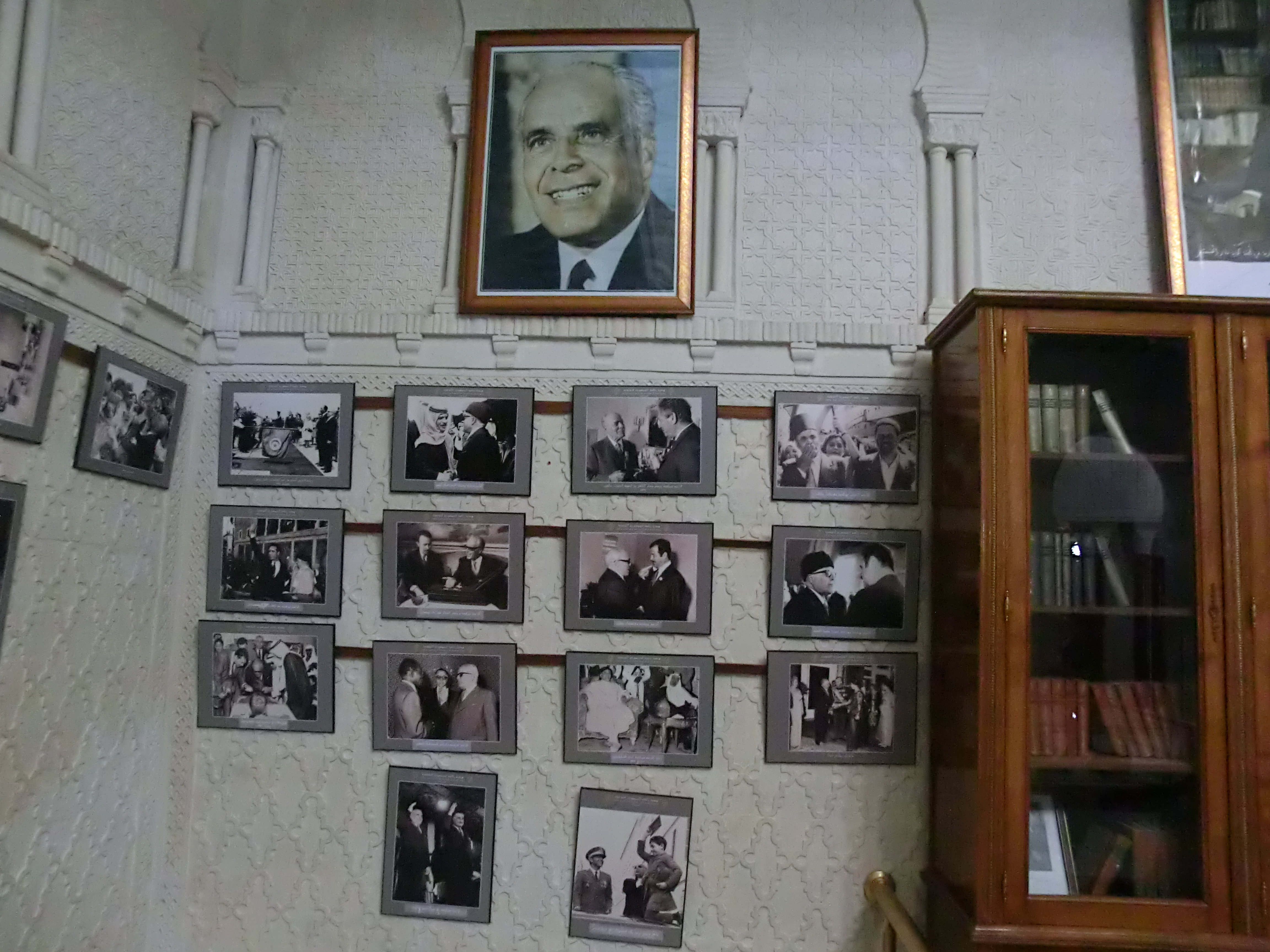 Tunisia's first president, Habib Bourguiba, with visitors. Bourguiba Mausoleum, Monastir, Tunisia